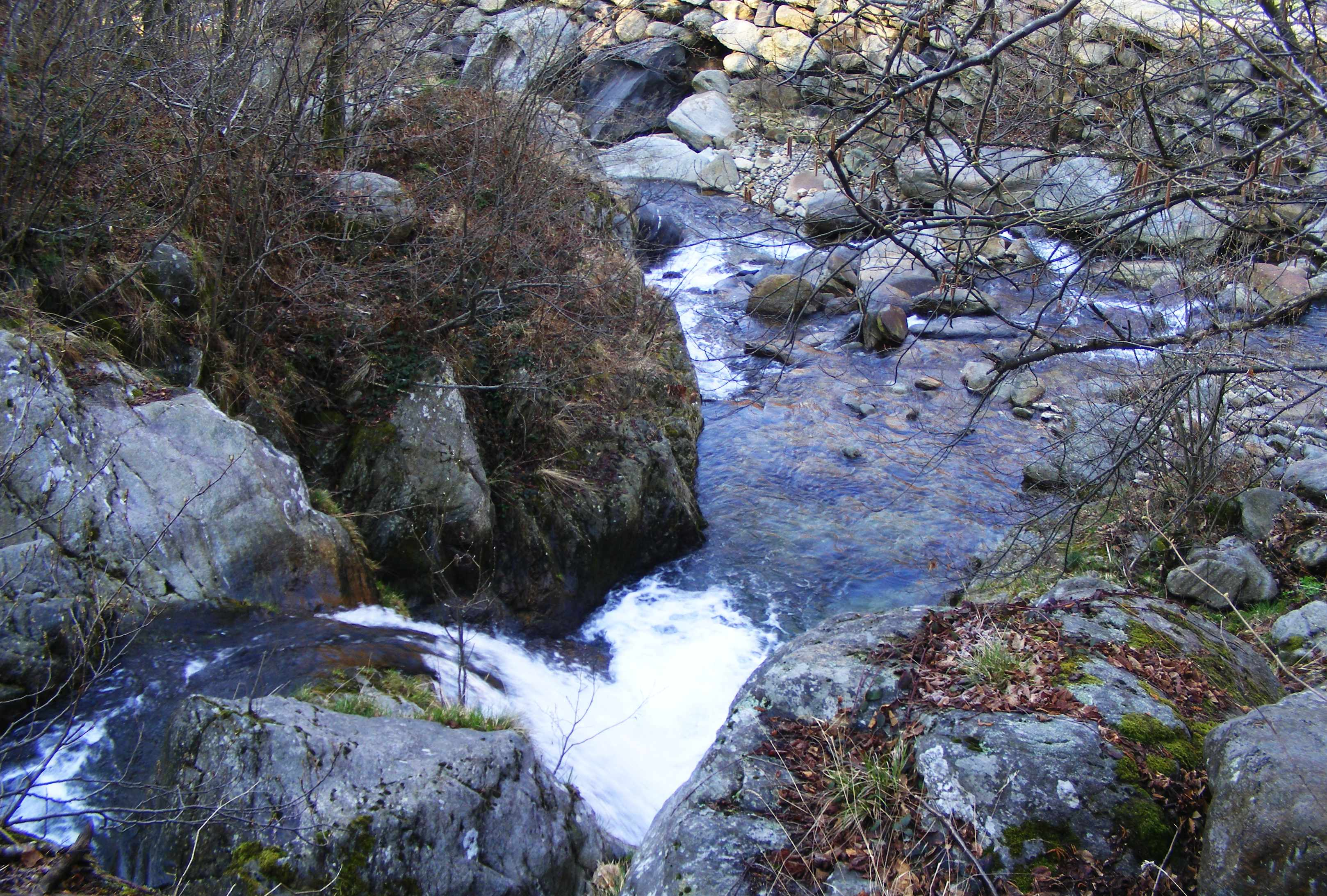 Rio Vernetto and Piova torrent confluence (TO, Italy)